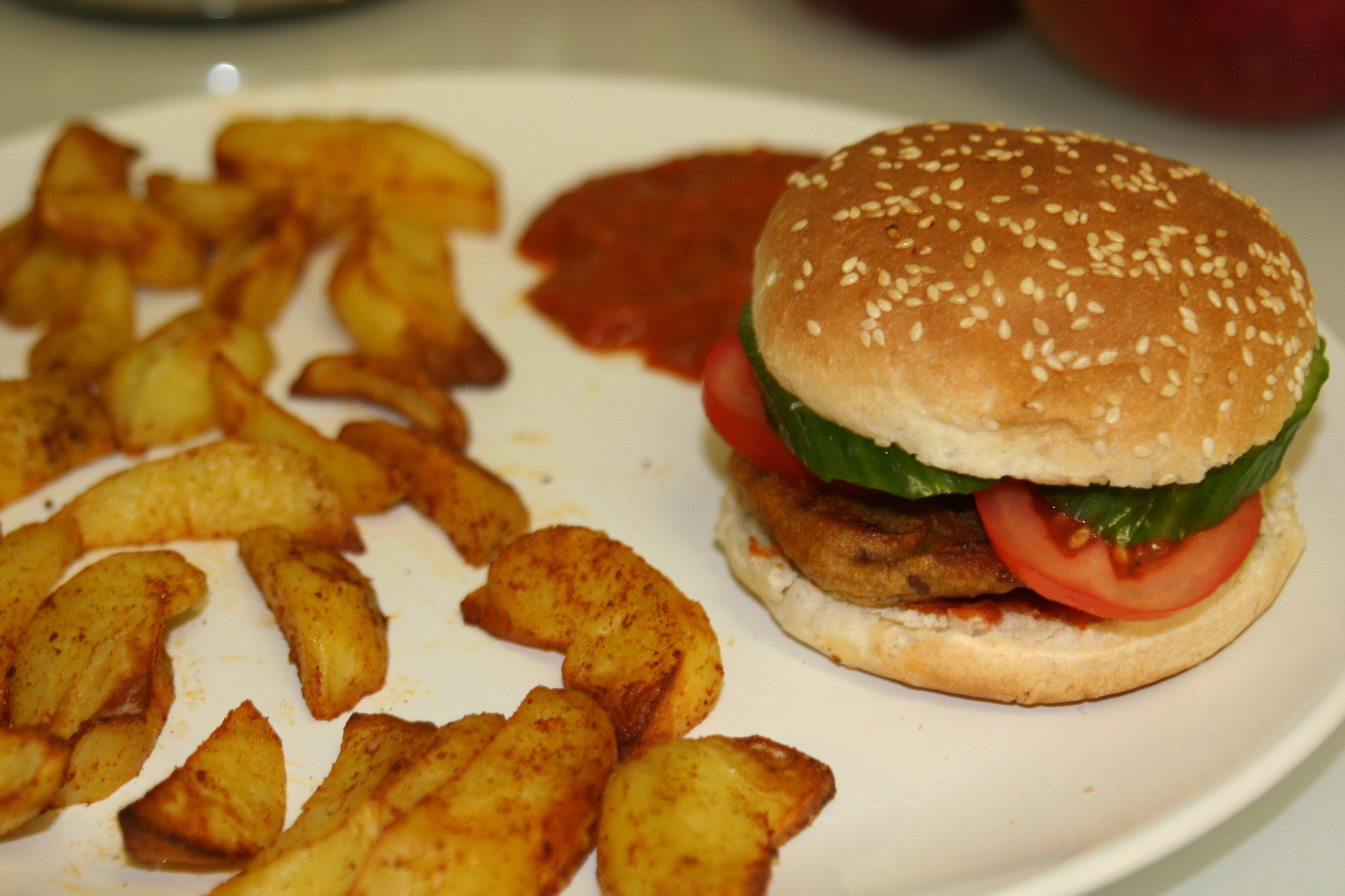 Vegan burger with French fries